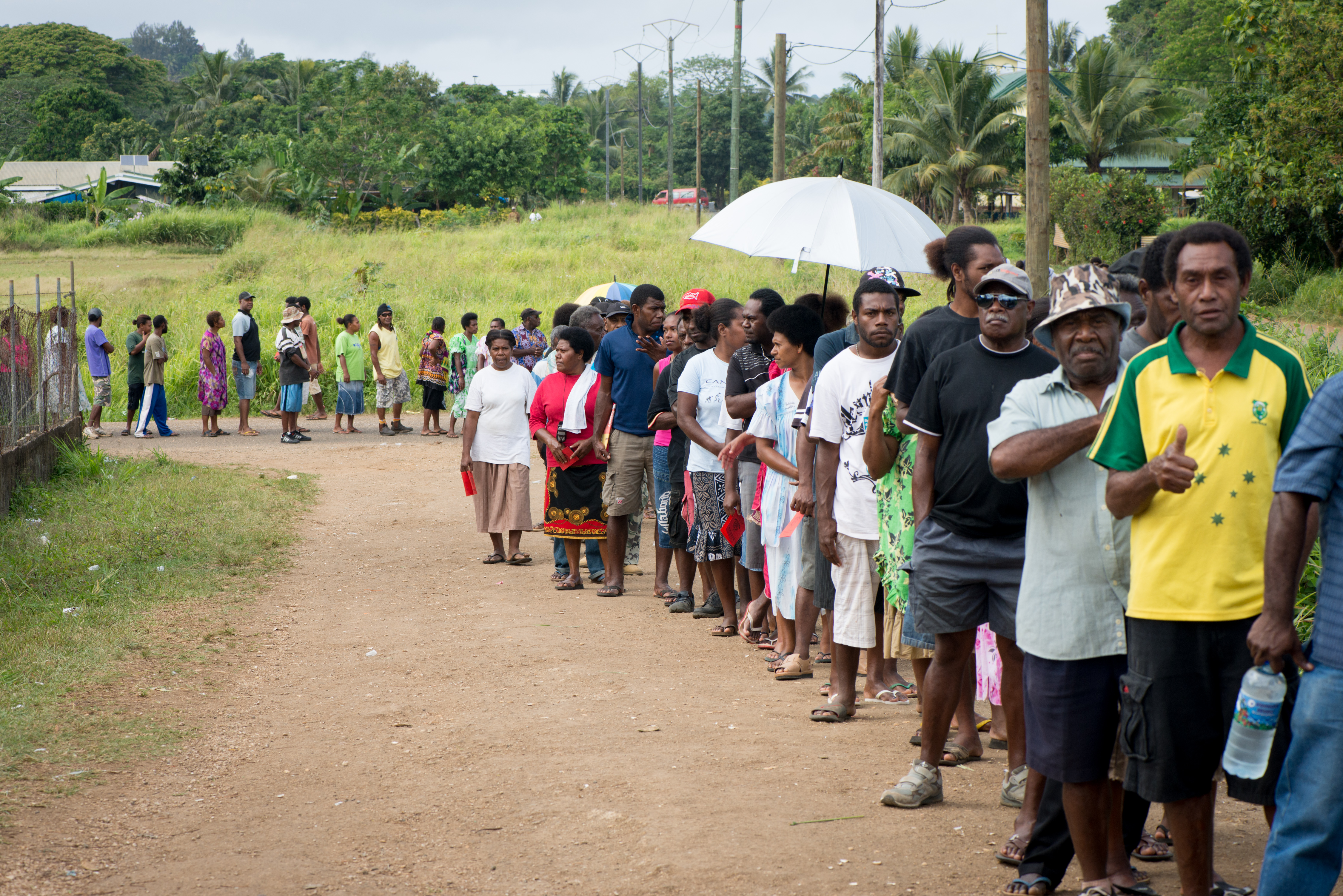 Some shots taken on polling day in Vanuatu's 2012 general election.